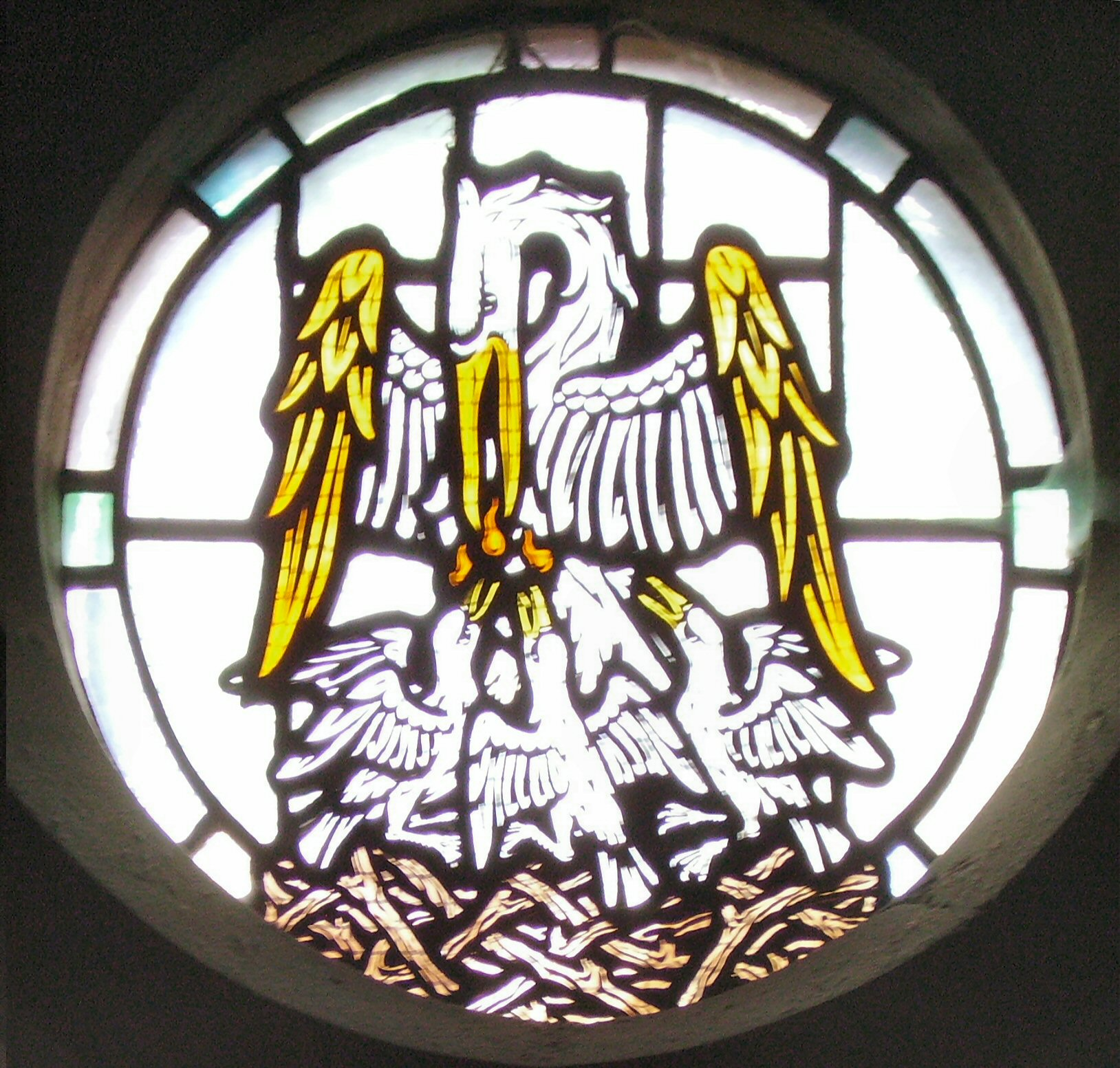 Taken by Mike Young at Saint Mark's Church Gillingham, Kent, UK